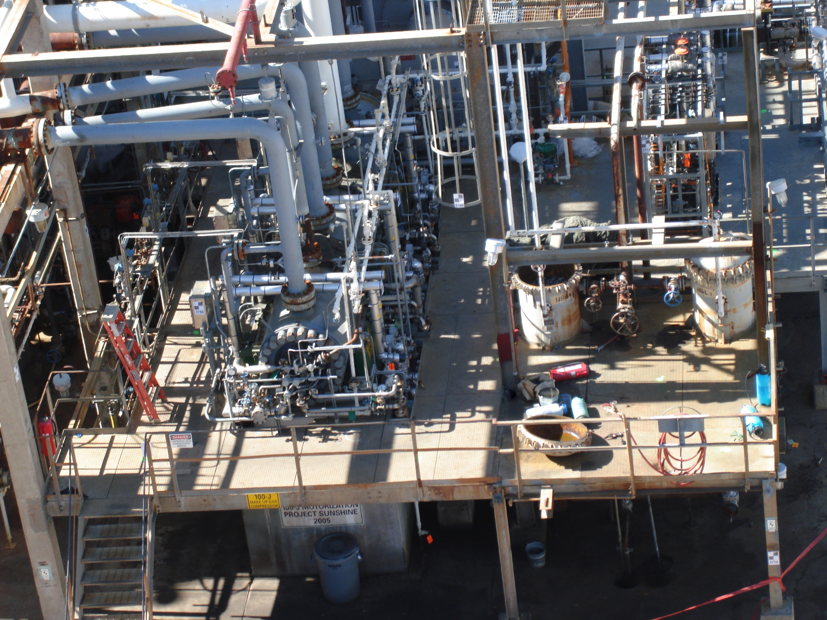 View of the ultracracker unit -- location of January 14, 2008, accident.